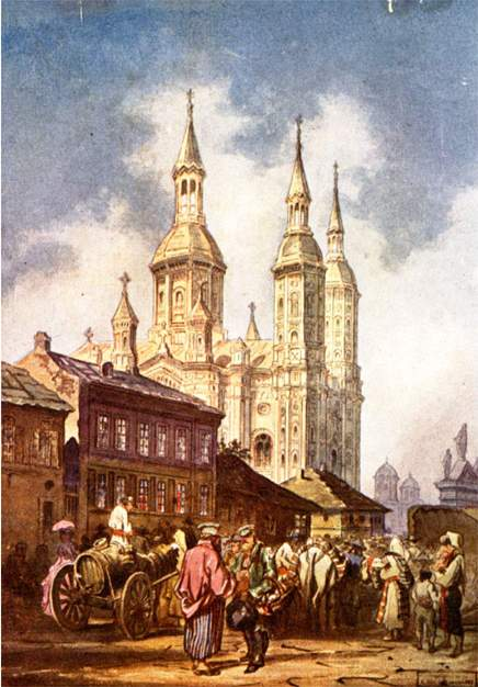 Saint Spiridon Church of Bucharest around 1860, aquarel (watercolor), 34x48cm.